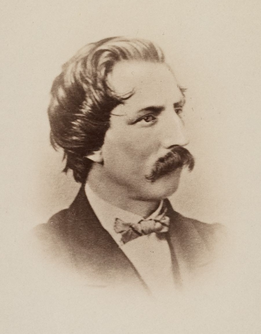 Cabinet card image of American humor writer Charles Farrar Brown (1834-1867), known by the pen name "Artemus Ward." TCS 1.3788, Harvard Theatre Collection, Harvard University